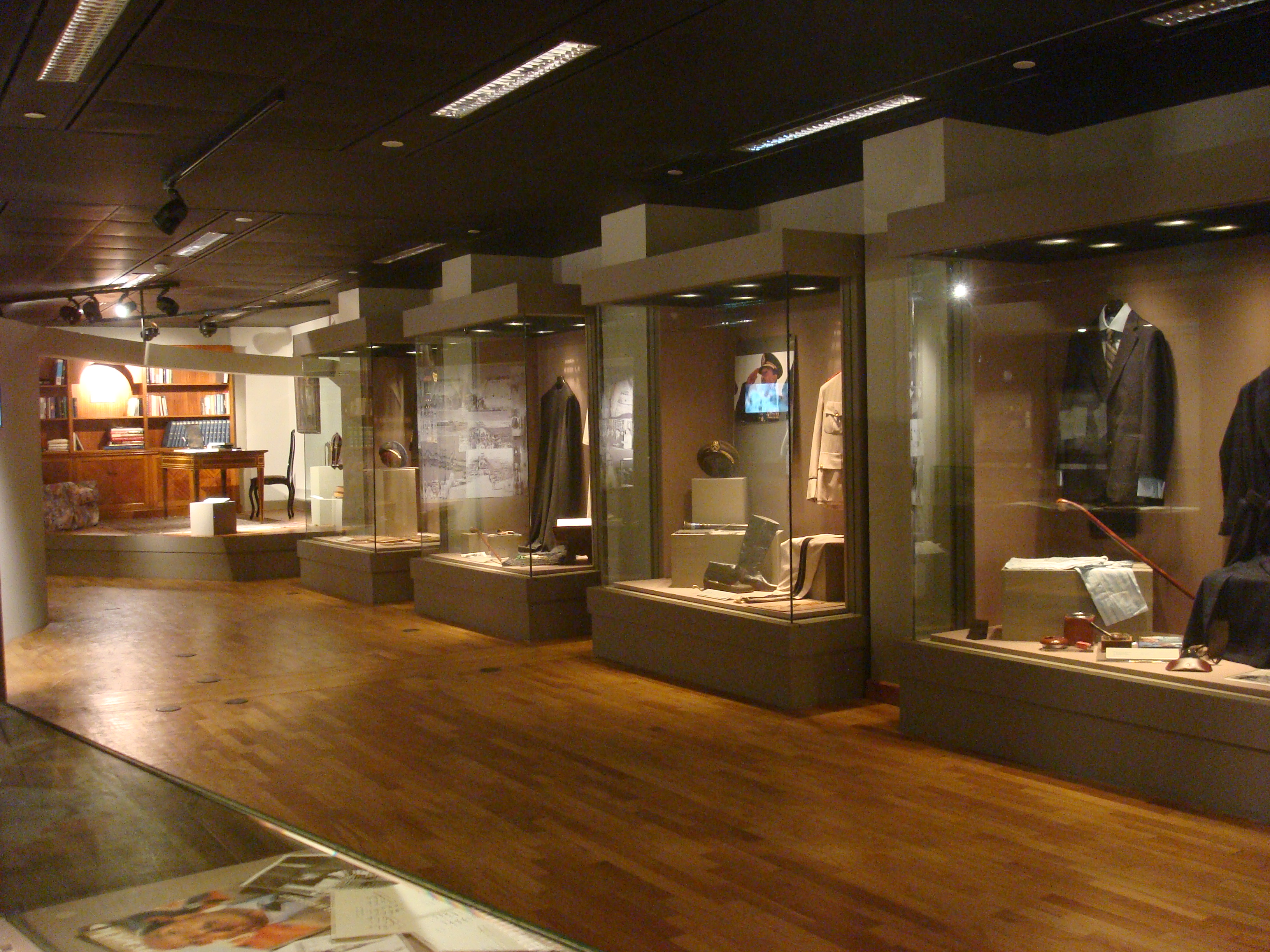 General view of the different galleries in the Sadat museum.